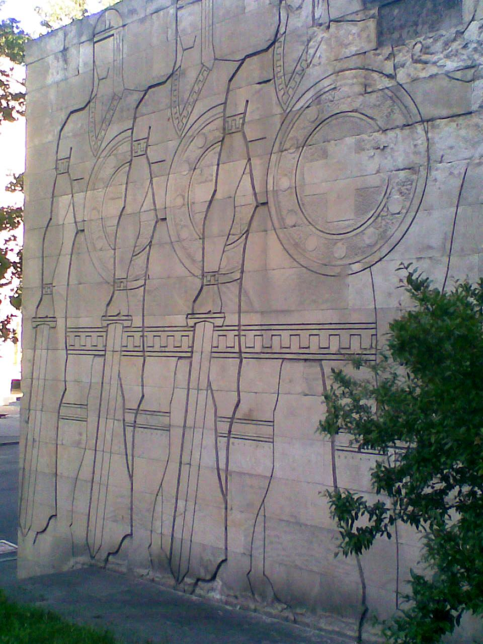 A monument to the 300 Warriors from the Aragvi Valley who fell at the Battle of Krtsanisi in 1795. Tbilisi, Georgia